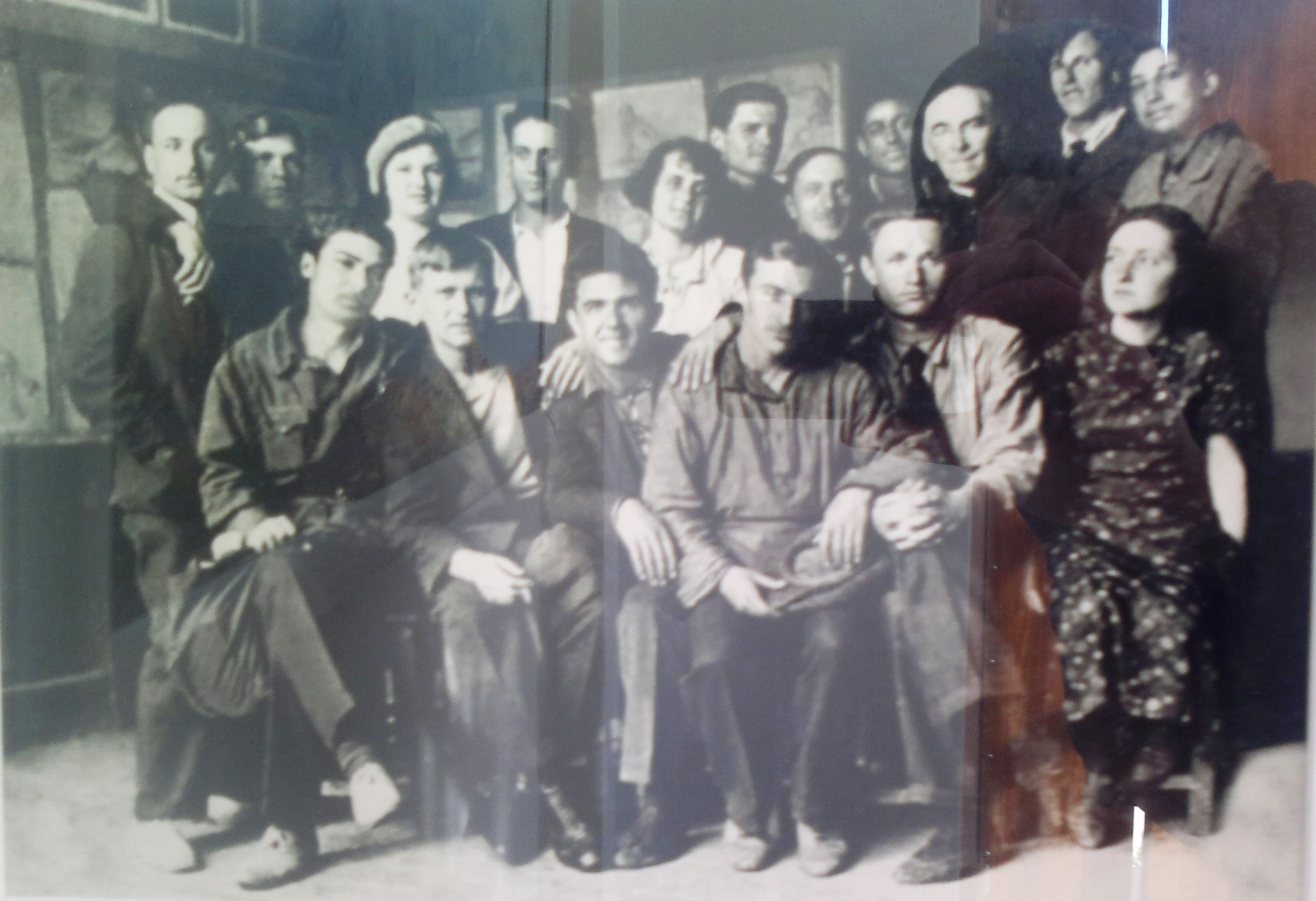 Sattar Bahlulzade with his stident friends in Moscow